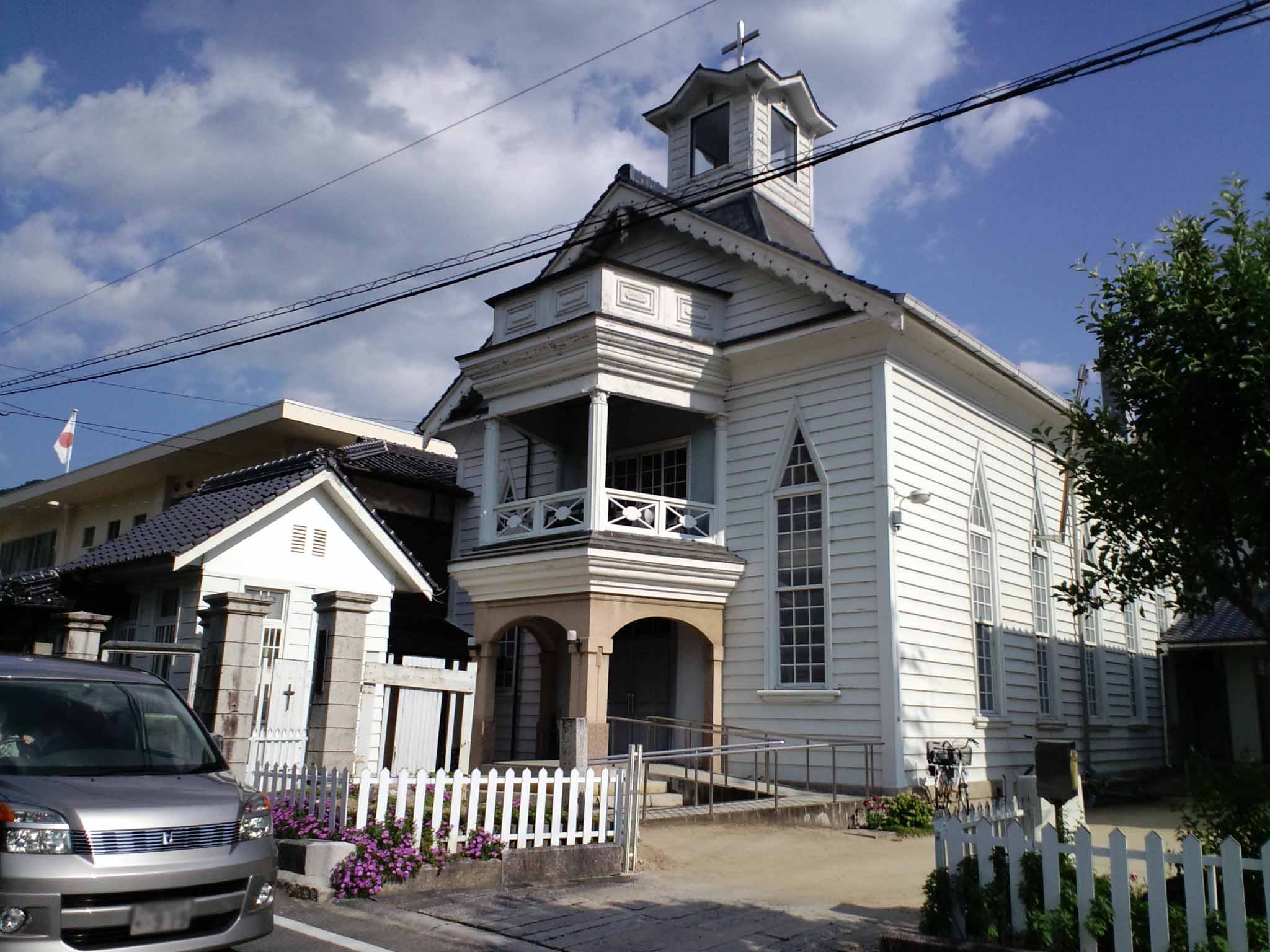 Takahashi Christianity church in Okayama Prefecture Takahashi City